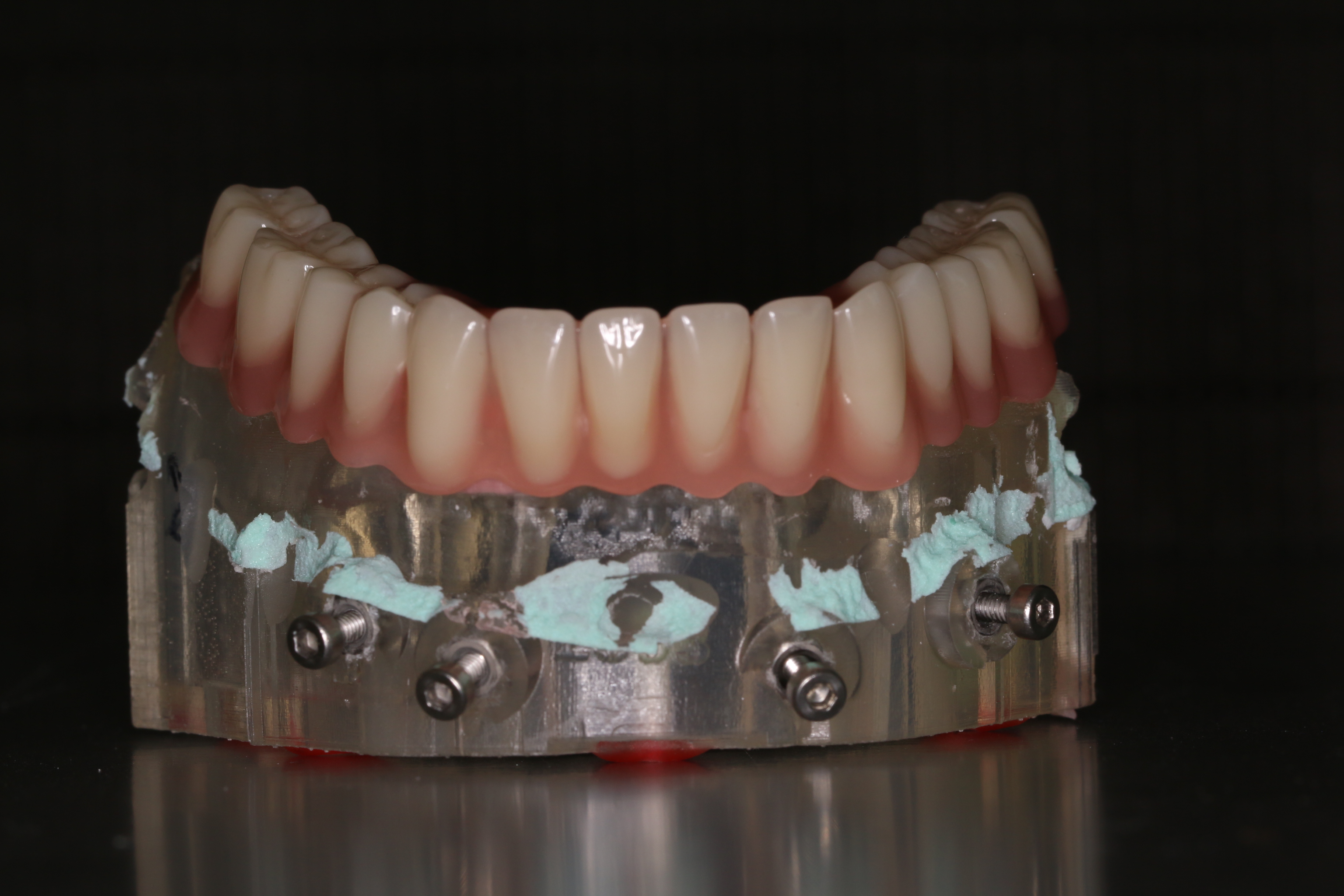 Dental technician model with the manufactured Prosthesis